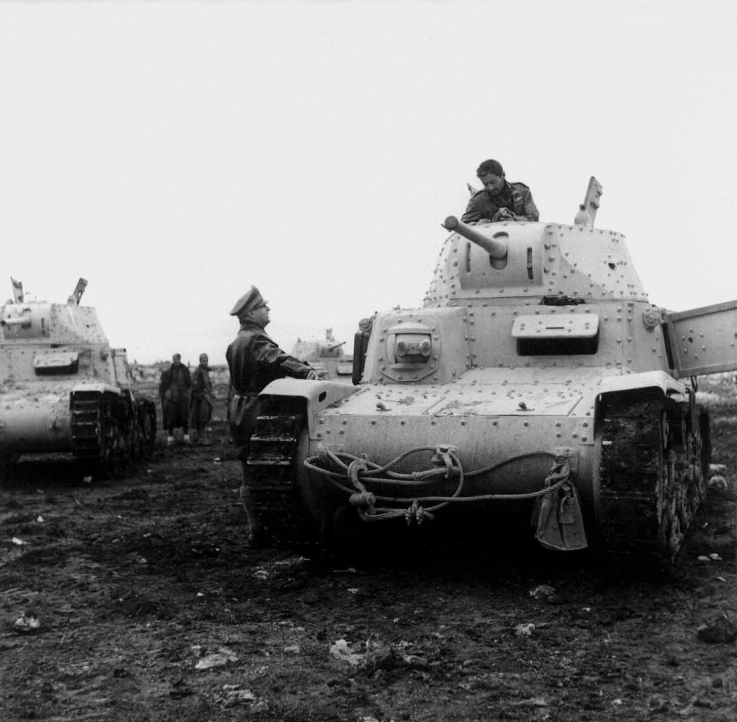 Italian M13/40 tank of the Ariete Armored Division in Autumn 1941